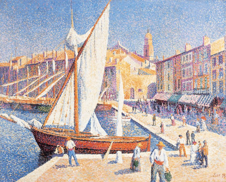 The port of Saint-Tropez (Le Port de Saint-Tropez) by Maximilien Luce, 1893. Oil on canvas, 73.7 x 91.4 cm.